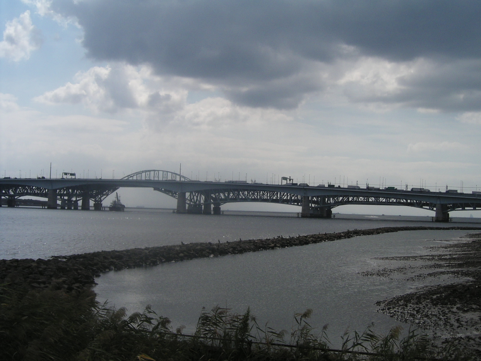 Arakawa River's mouth in Koutou ward,Tokyo.,Japan 荒川（河口橋、東京都江東区）